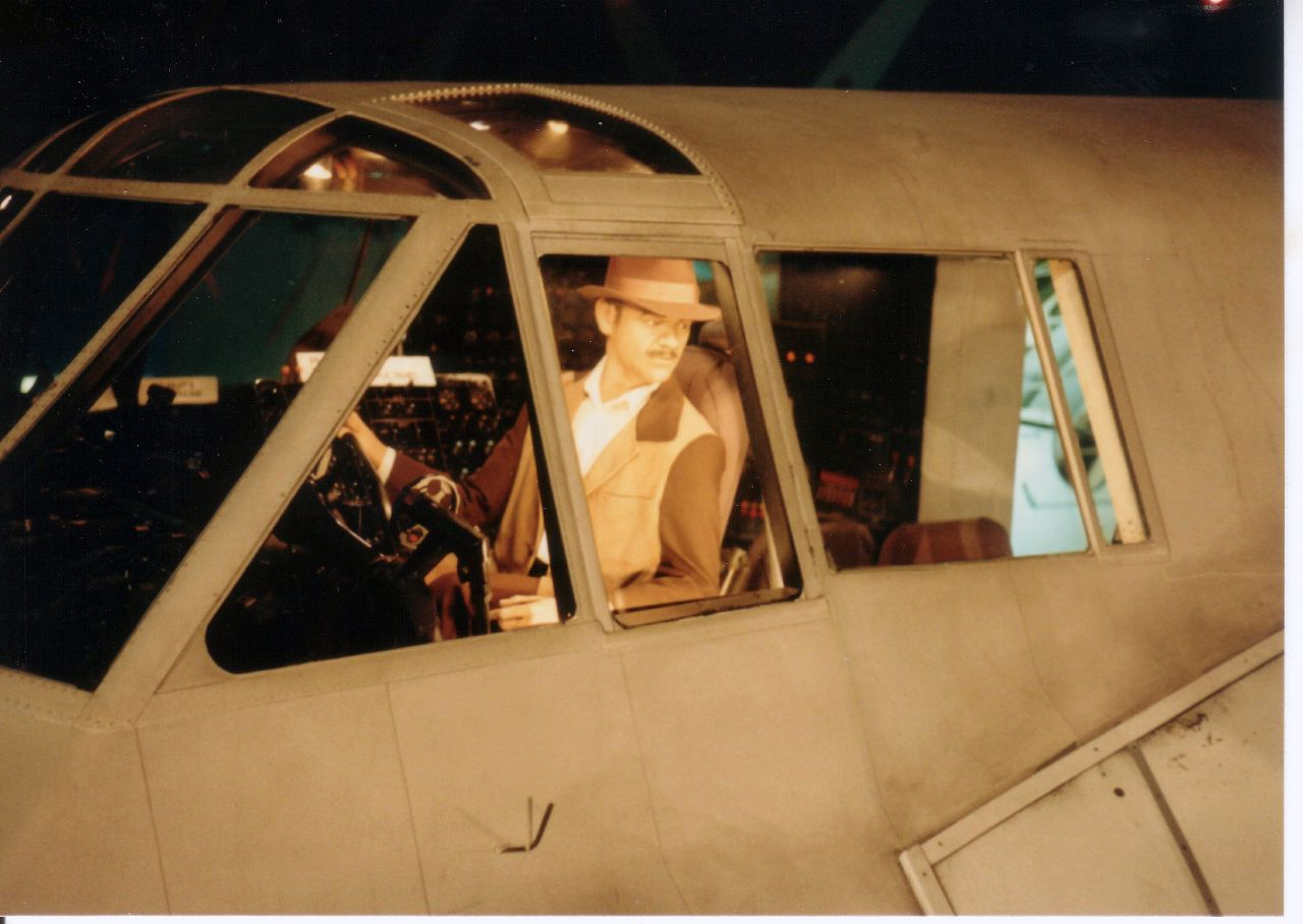 A puppet of Howard Hughes placed in the cockpit of the Spruce Goose at the Evergreen Aviation Museum.